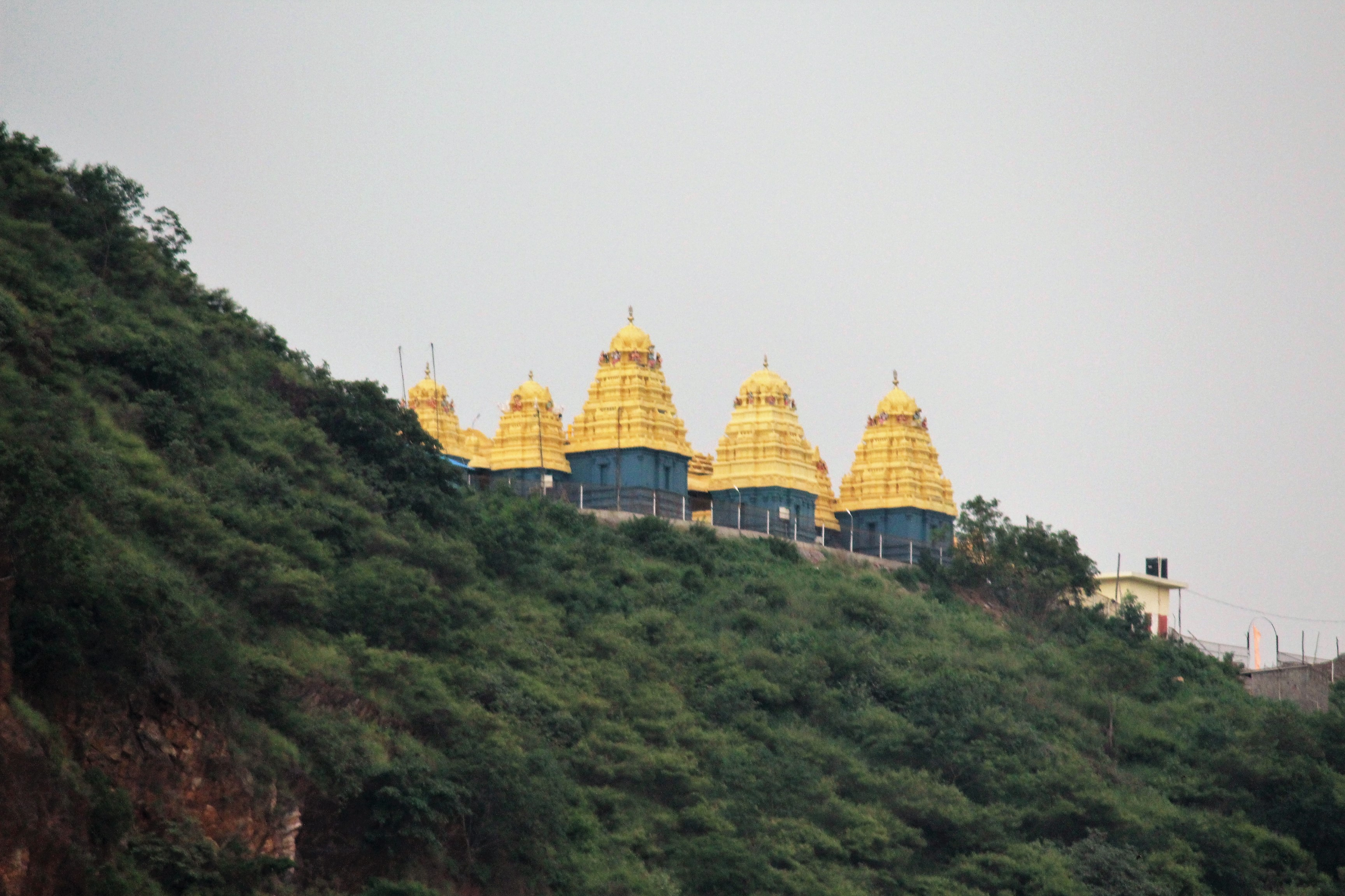 Kanaka Durga Temple is a famous hindu Temple of Goddess Durga located in Vijayawada, Andhra Pradesh. The temple is located on the Indrakeeladri hill, on the banks of Krishna River.